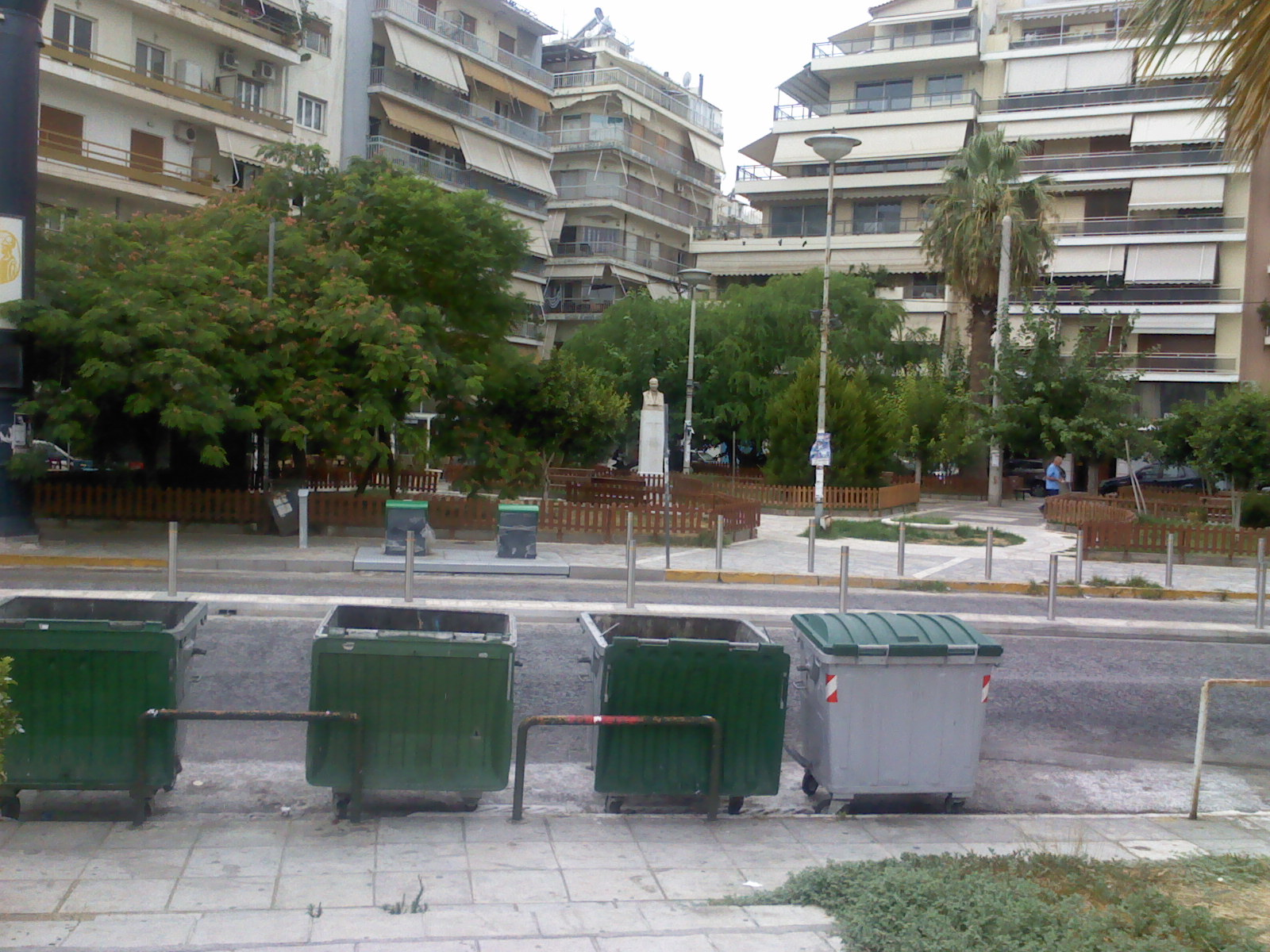 Square Freattidos in Pireas